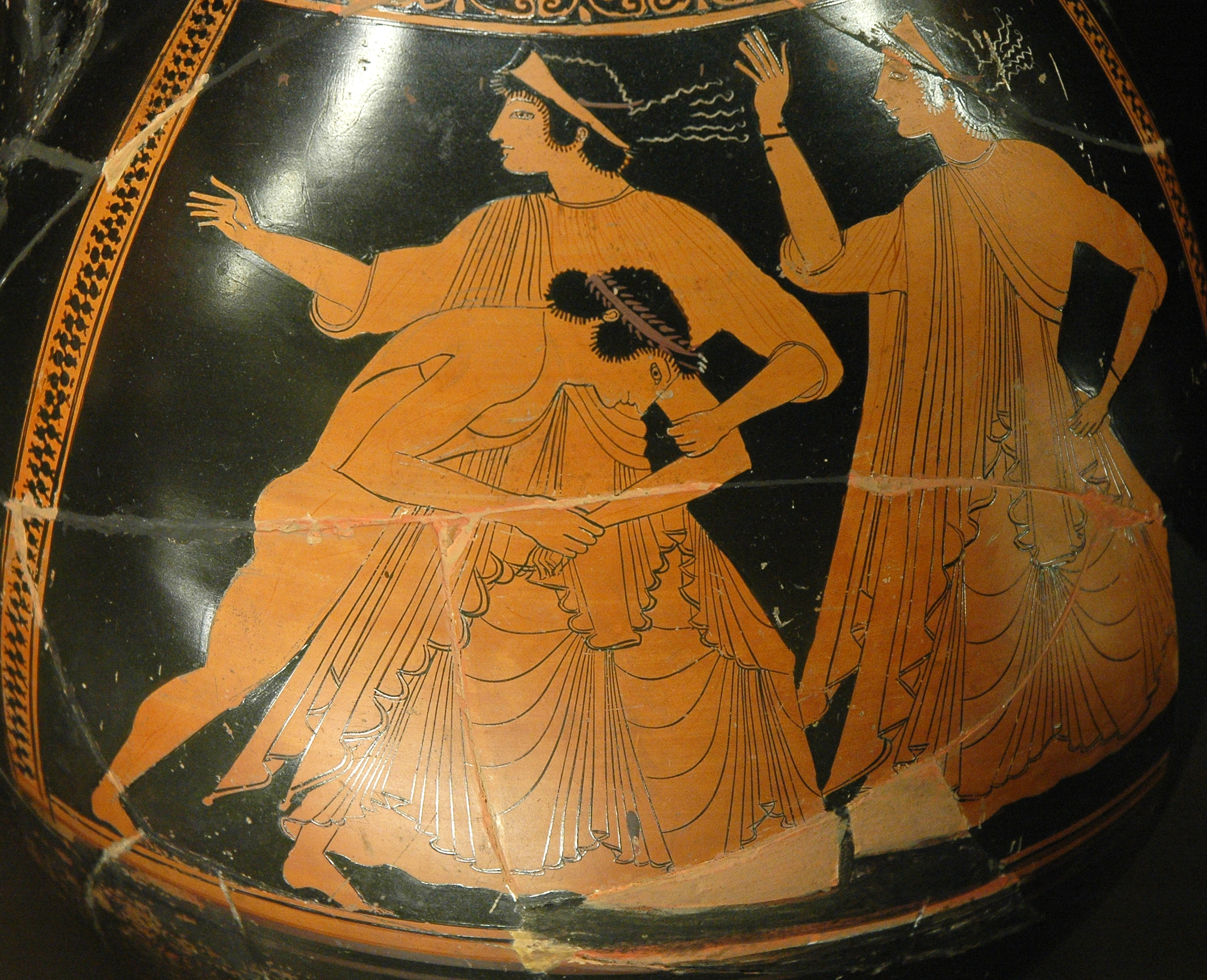 Thetis raped by Peleus. Side A from an Attic red-figure pelike, ca. 510 BC–500 BC.